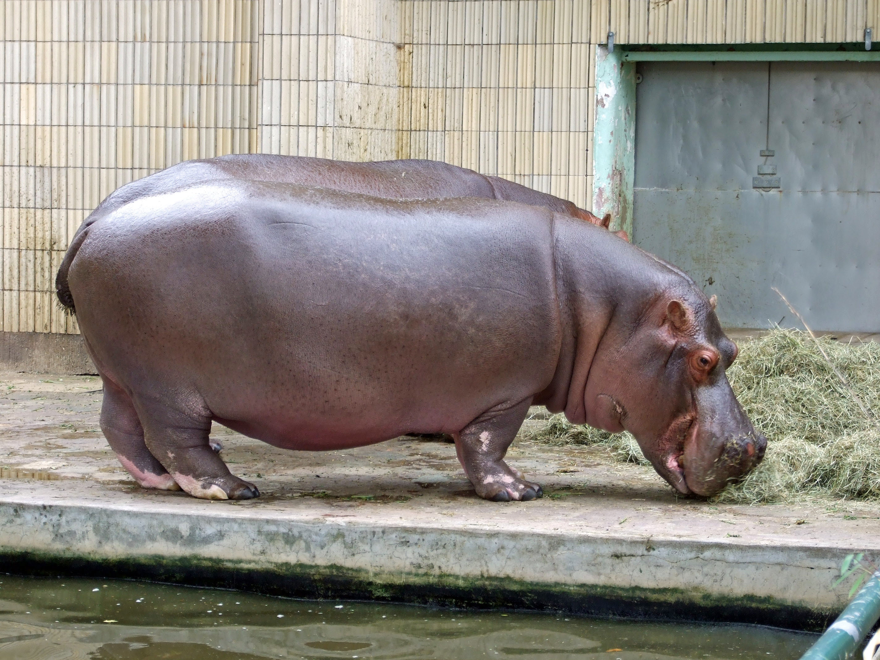 Hippos at Zoo Frankfurt